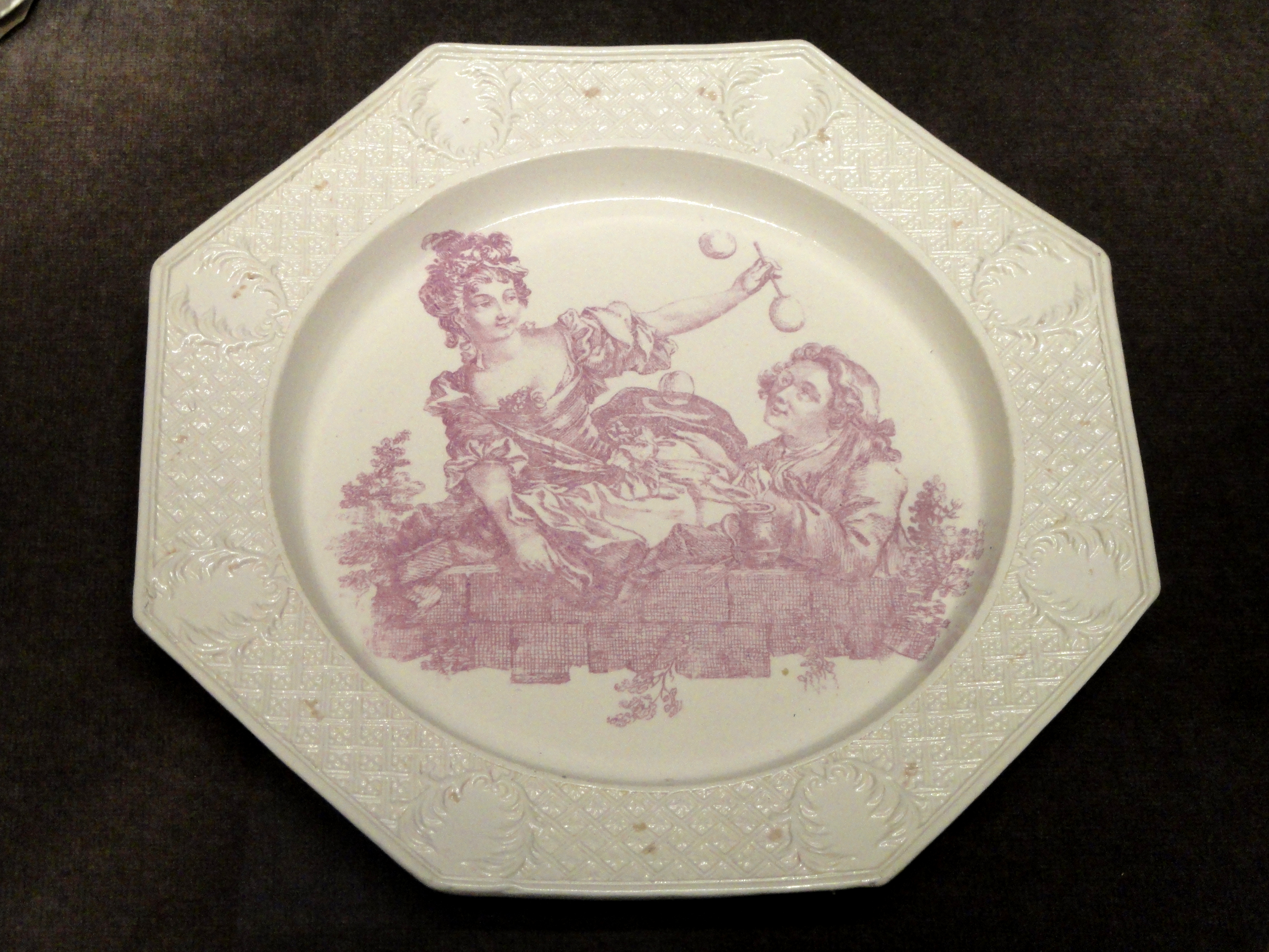 Exhibit in the Cleveland Museum of Art, Cleveland, Ohio, USA. This artwork is old enough so that it is in the public domain.